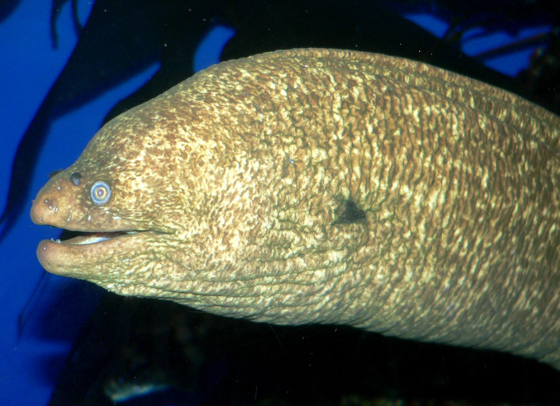 Photo of Gymnothorax mordax at the Birch Aquarium in San Diego